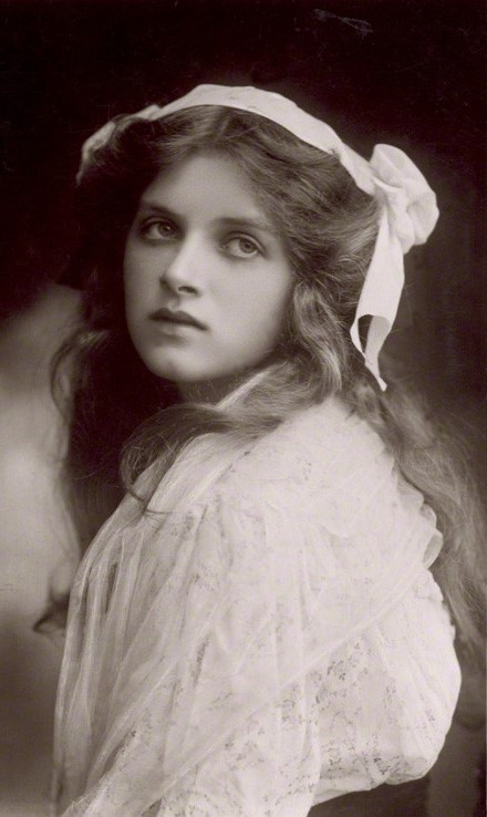 Photograph of actress Gladys Cooper, circa 1911.